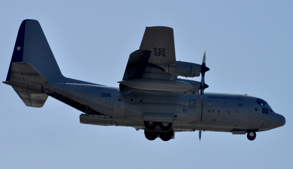 Pudahuel AFB, Santiago de Chile, March 2013